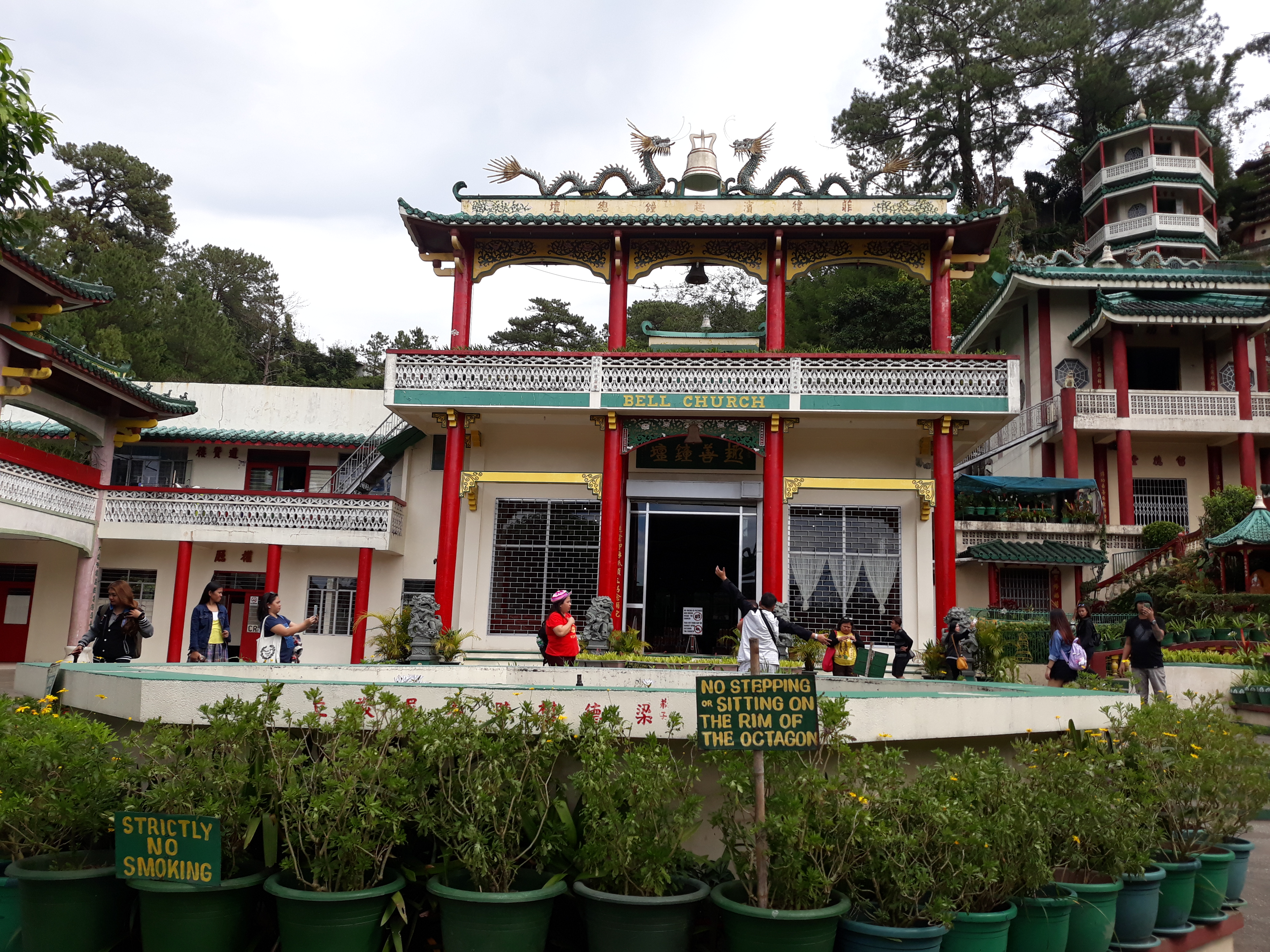 Bell Church, Baguio City